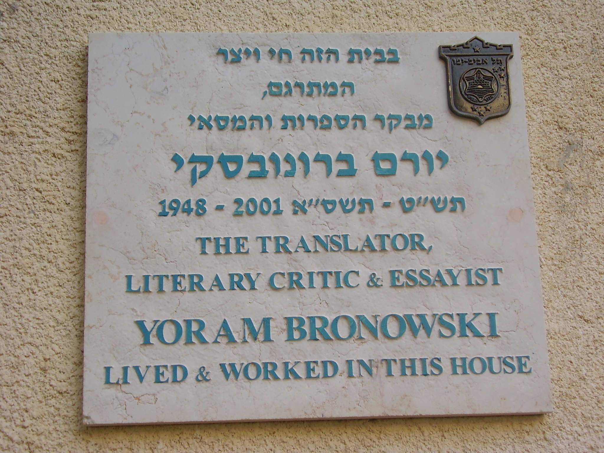 memorial plate to yoram bronowski in tel aviv לוחית זיכרון על ביתו של יורם ברונובסקי ברח' גוטליב 16 בתל אביב